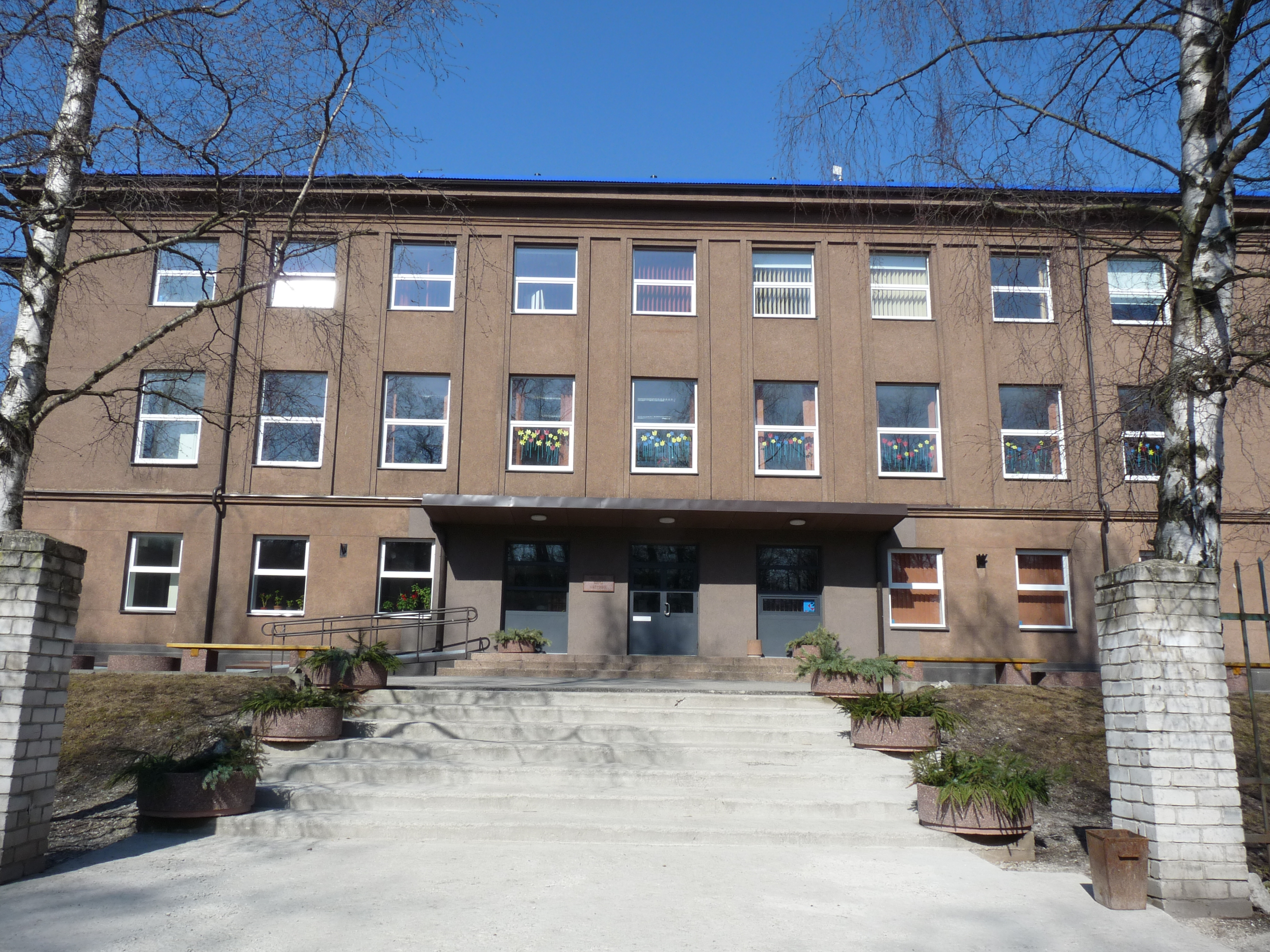 Kopli vocational school. 1) During USSR times it was named "Vocational school #10". 2) In the beging of 2000's was closed as inadmissible low education level. 3) In the end of 2000's was reopened, as lot of schooboys can't finish 9 forms to get basic certificate and go to vocational schools with medium or high education level.